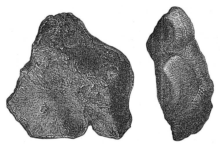 Drawing of Stannern meteorite, eucrite.